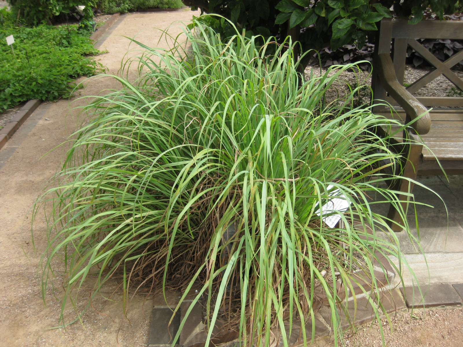 Photographed at the Royal Botanic Gardens Sydney (Australia) in January